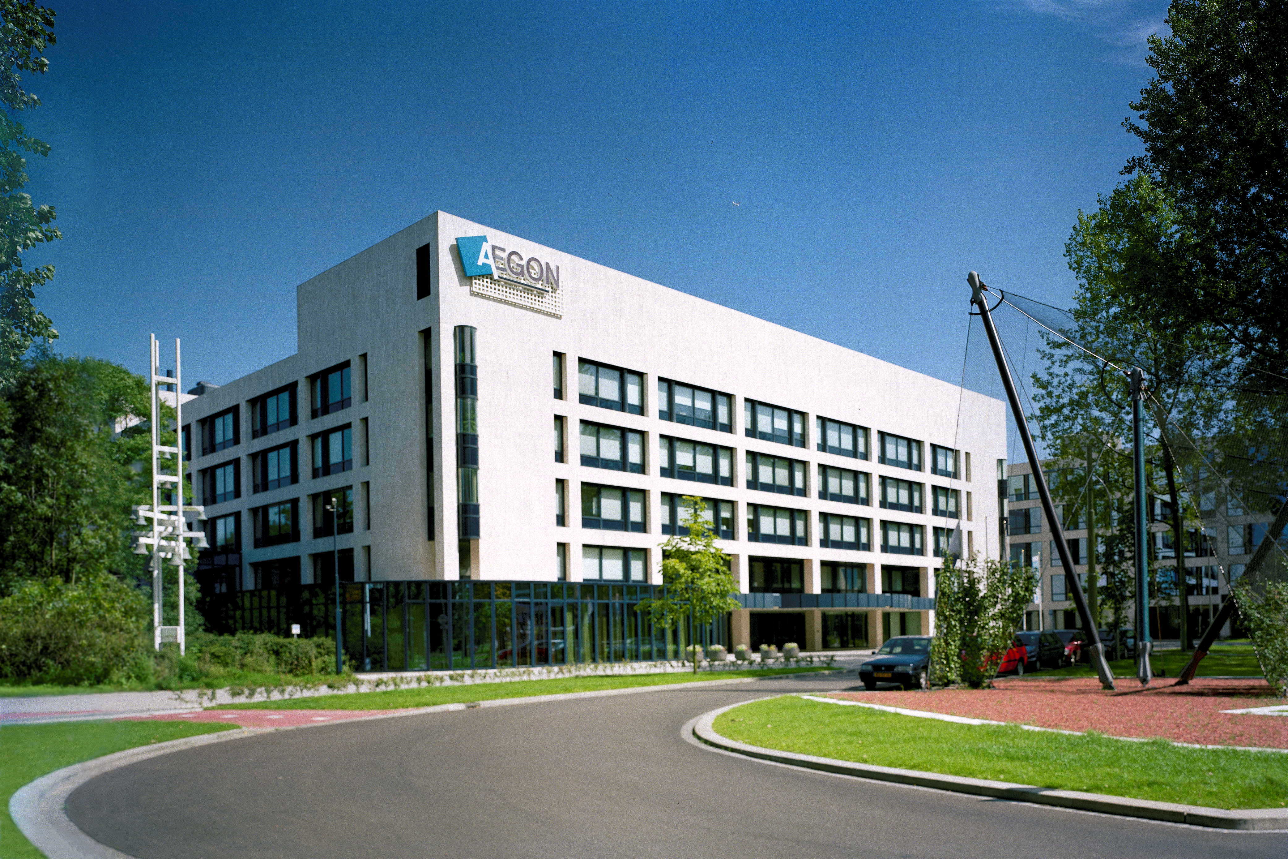 AEGON headquarters at AEGONplein 50 in The Hague, the Netherlands.